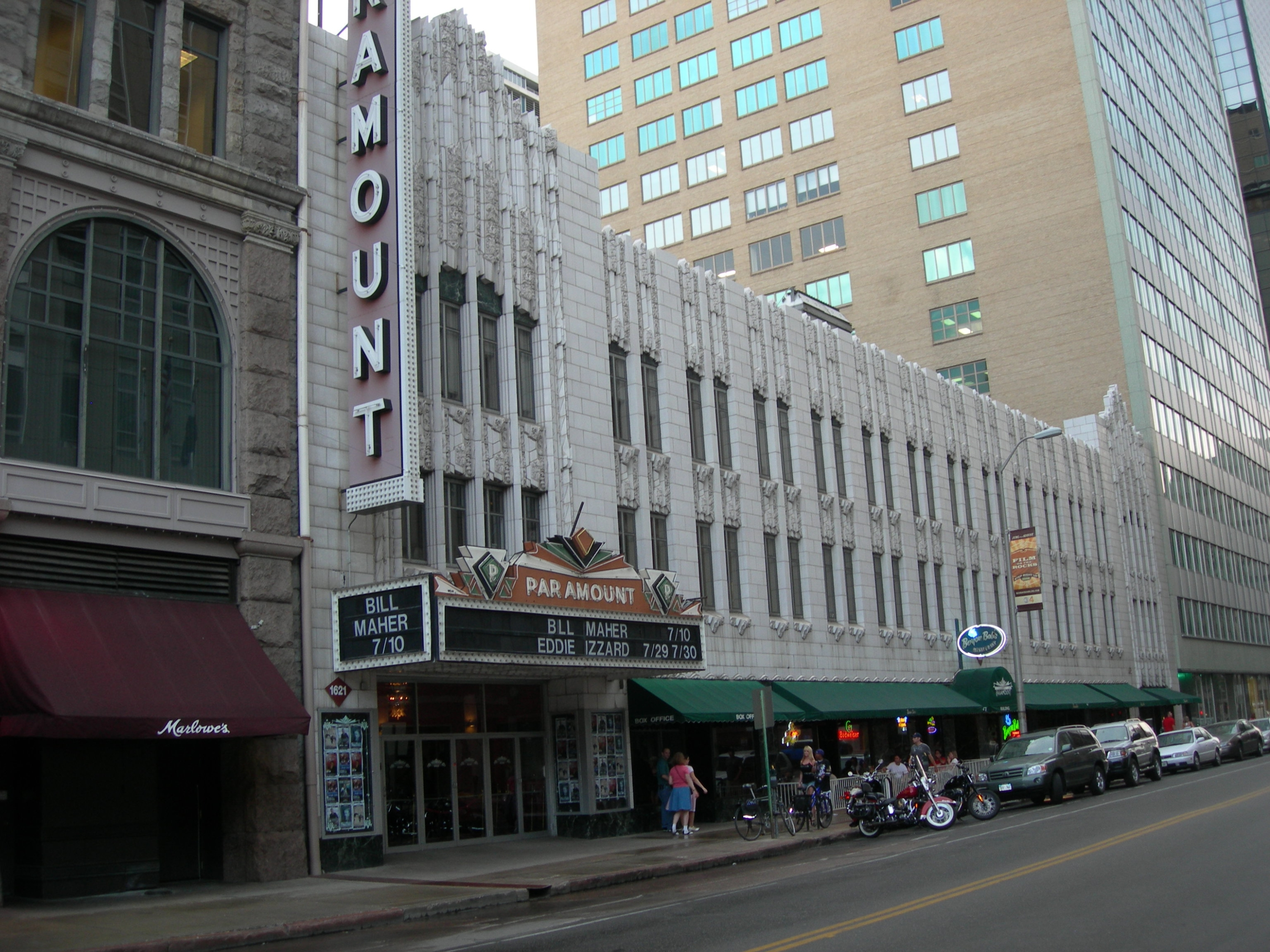 Paramount Theatre, in downtown Denver